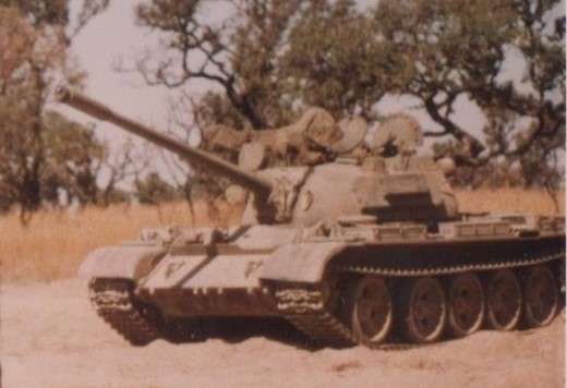 Cropped version of a previous Commons image. Former Libyan T-55LD tank, manufactured in Poland 1975. Photographed outside Inkomo Barracks in Rhodesia (Zimbabwe) 1979. Cropped for a template. Limited contextual relevance to original work.